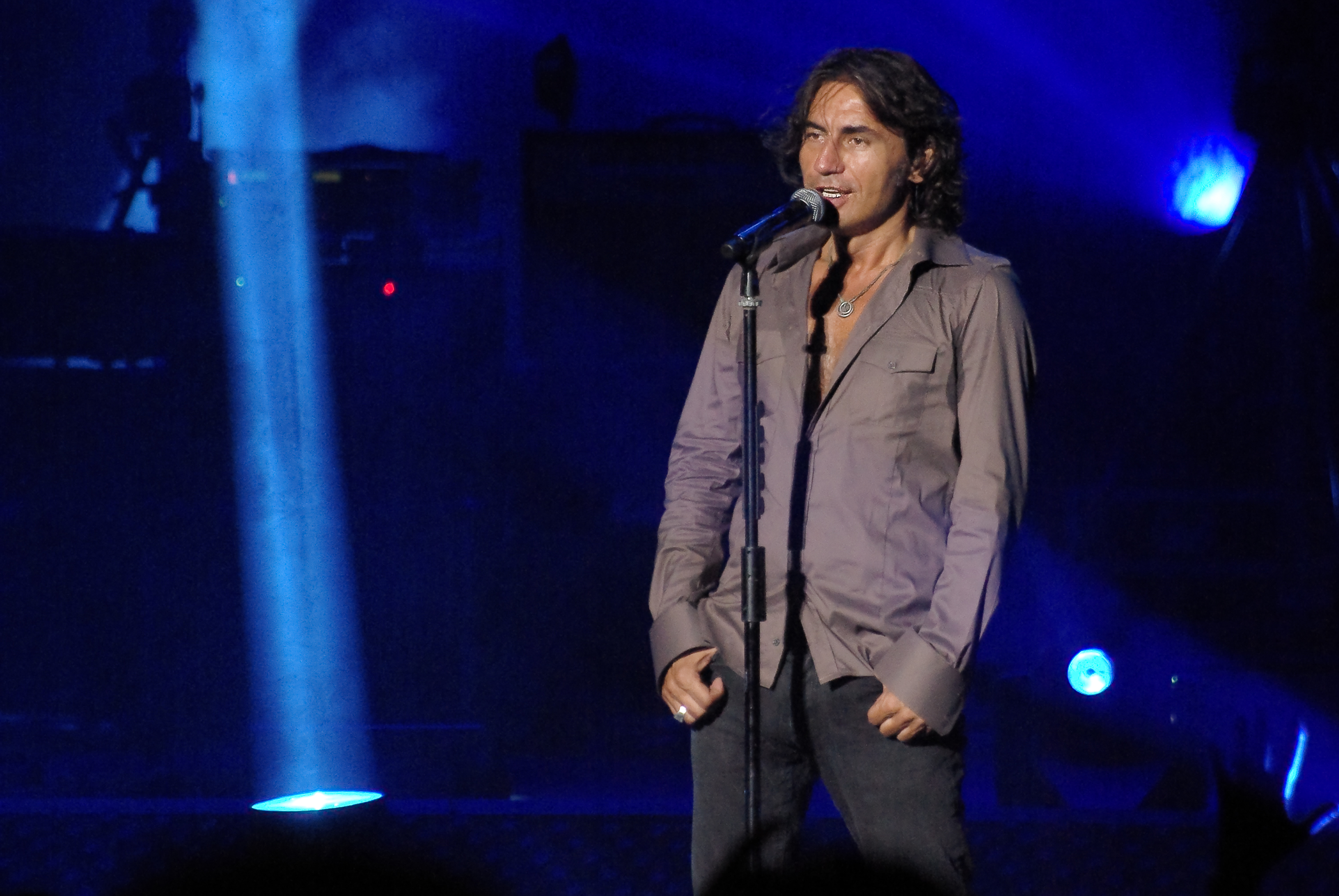 Ligabue at "Solo Rock 'n' Roll" concert of September 19, 2009 in Verona Arena